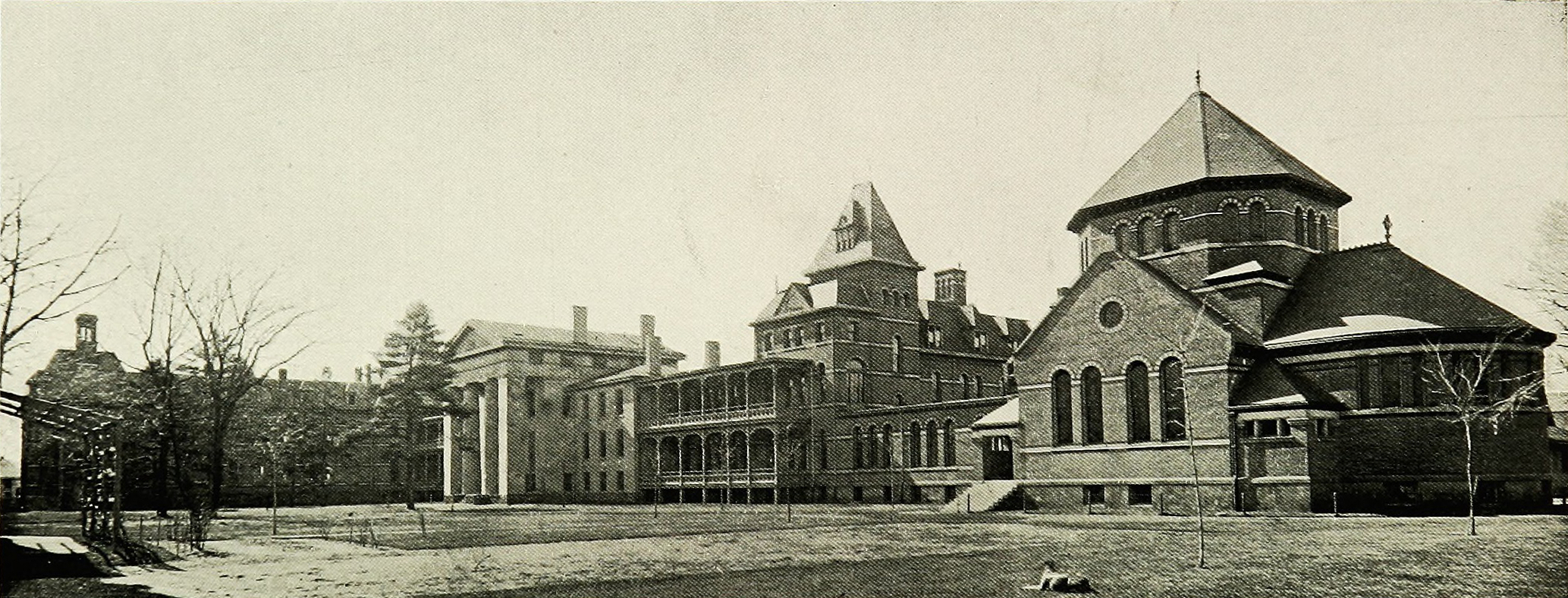 New Haven Hospital, including chapel, Gifford Ward, North-ward, and Administration Building, facing south from Davenport Avenue